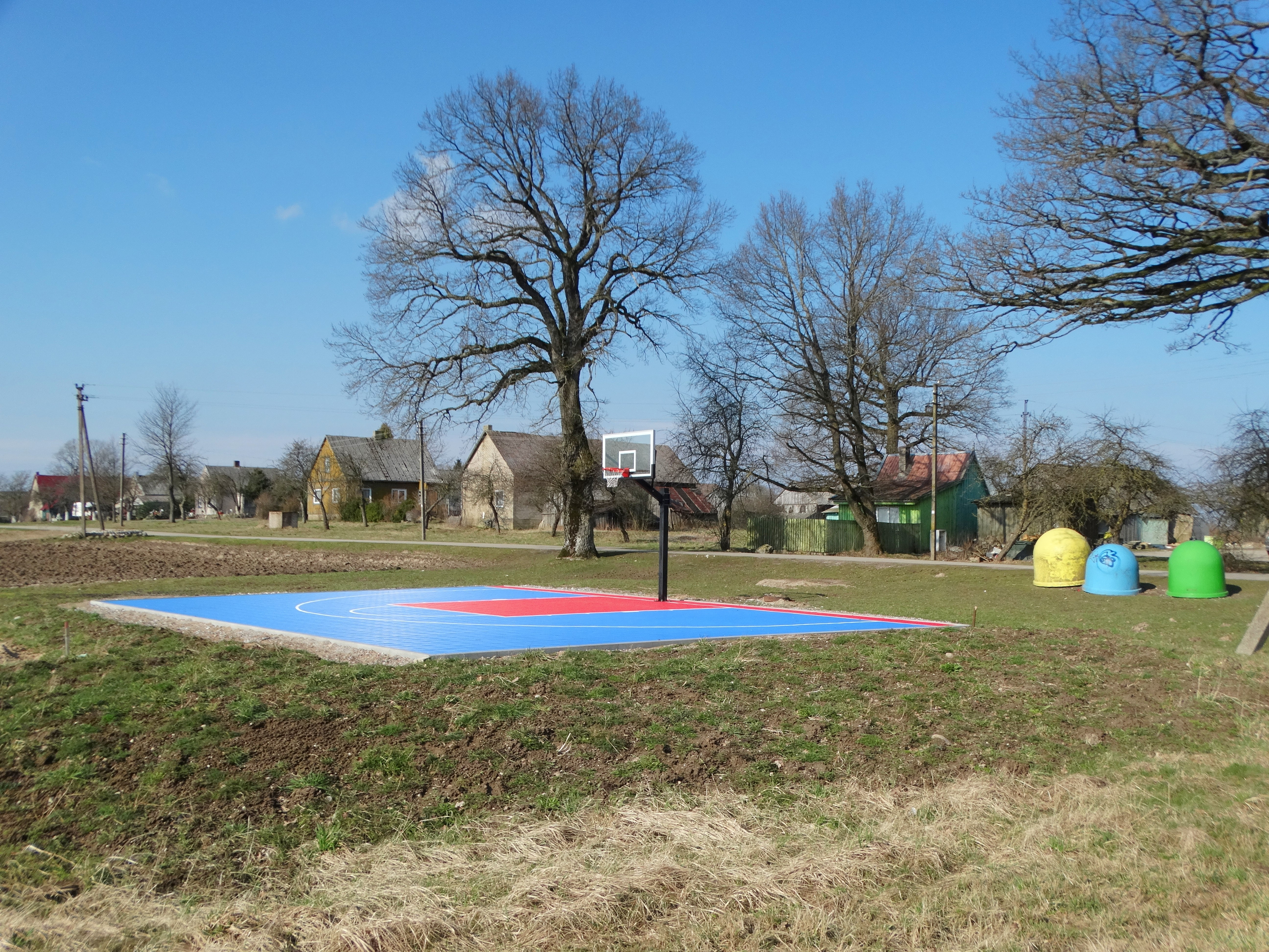 Šukaičiai, Klaipėda District, Lithuania